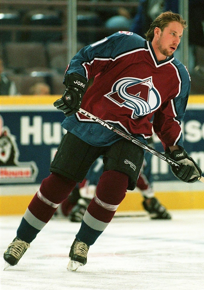 Peter Forsberg in a Colorado Avalanche jersey.